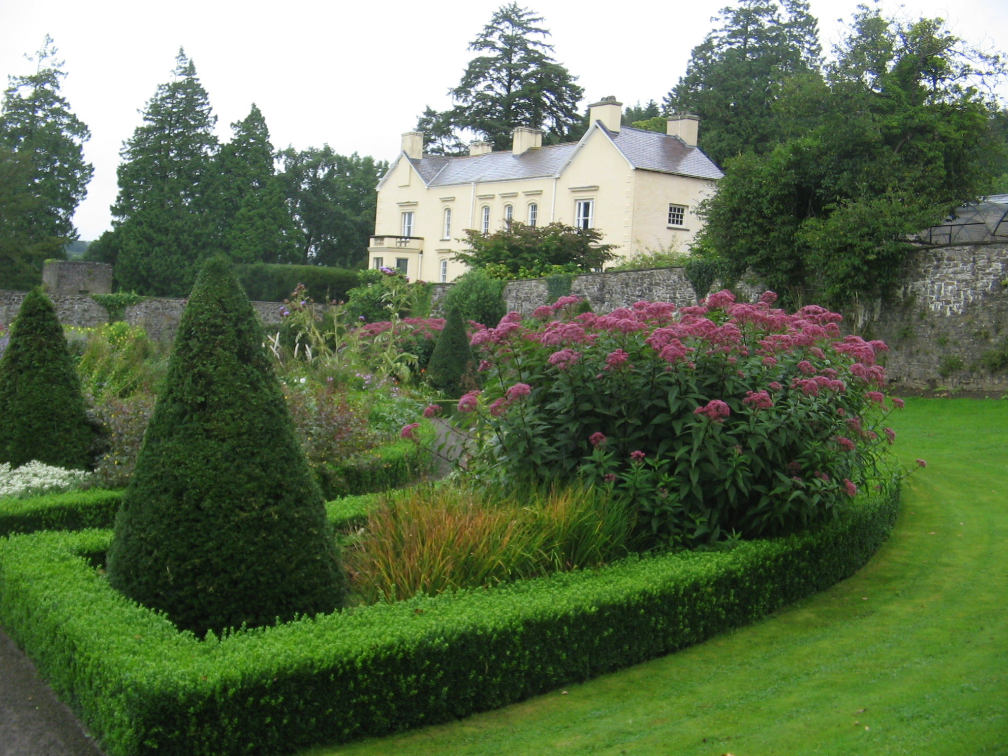 aberglasney on a grey day